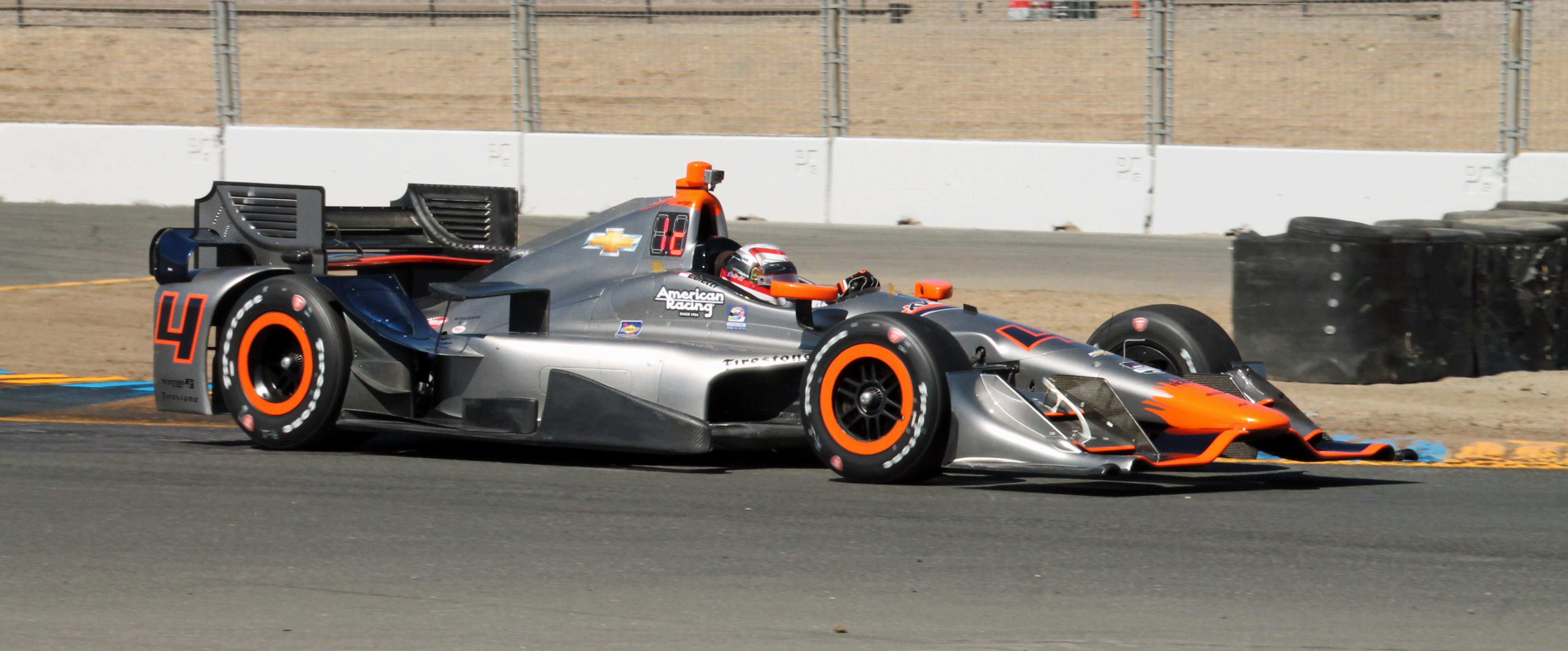 Stefano Coletti during practice at the 2015 GoPro Grand Prix of Sonoma